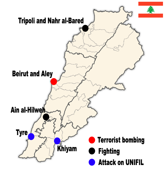 May-June conflict in Lebanon